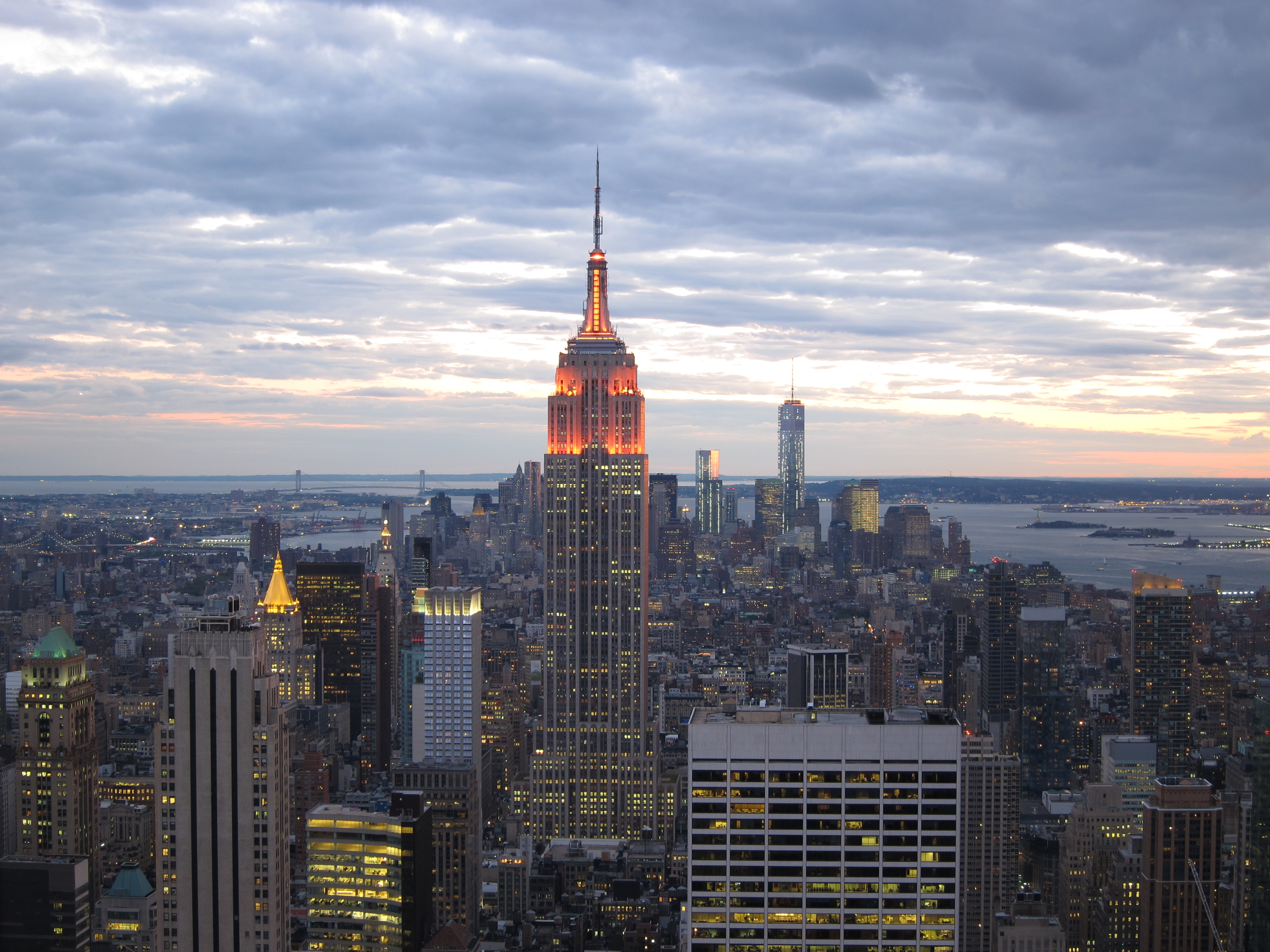 New York